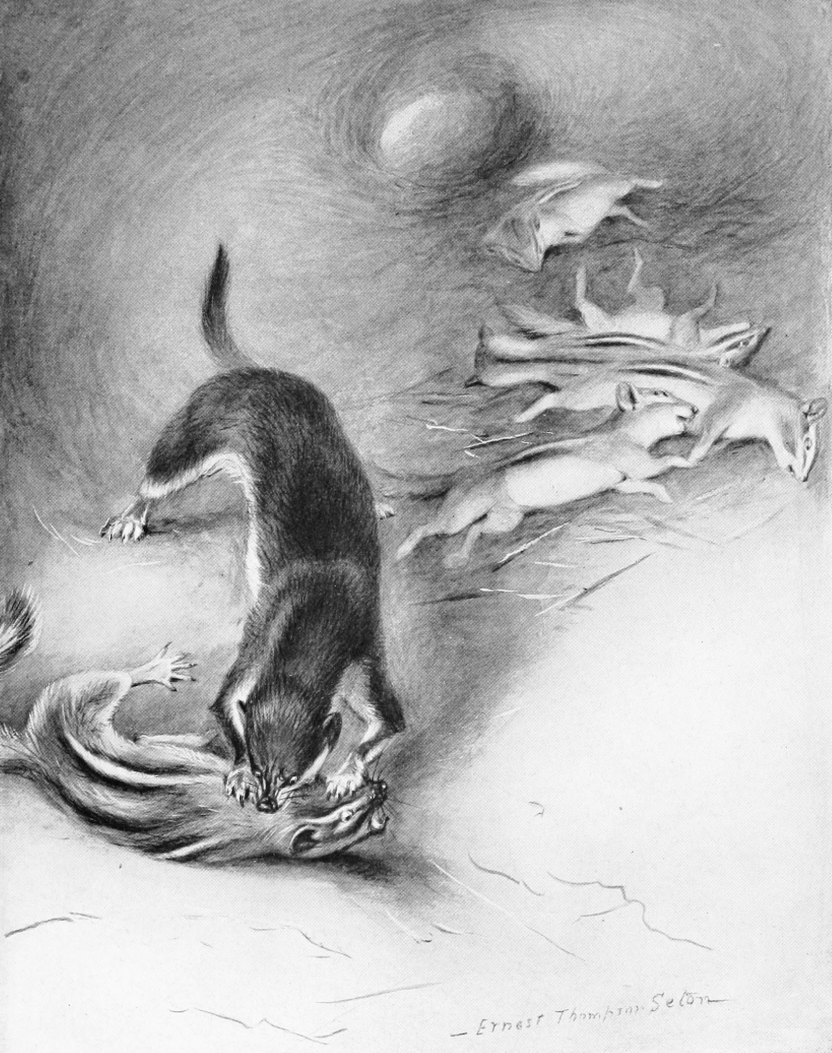 An illustration of a stoat surplus killing a family of chipmunks by Ernest Thompson Seton